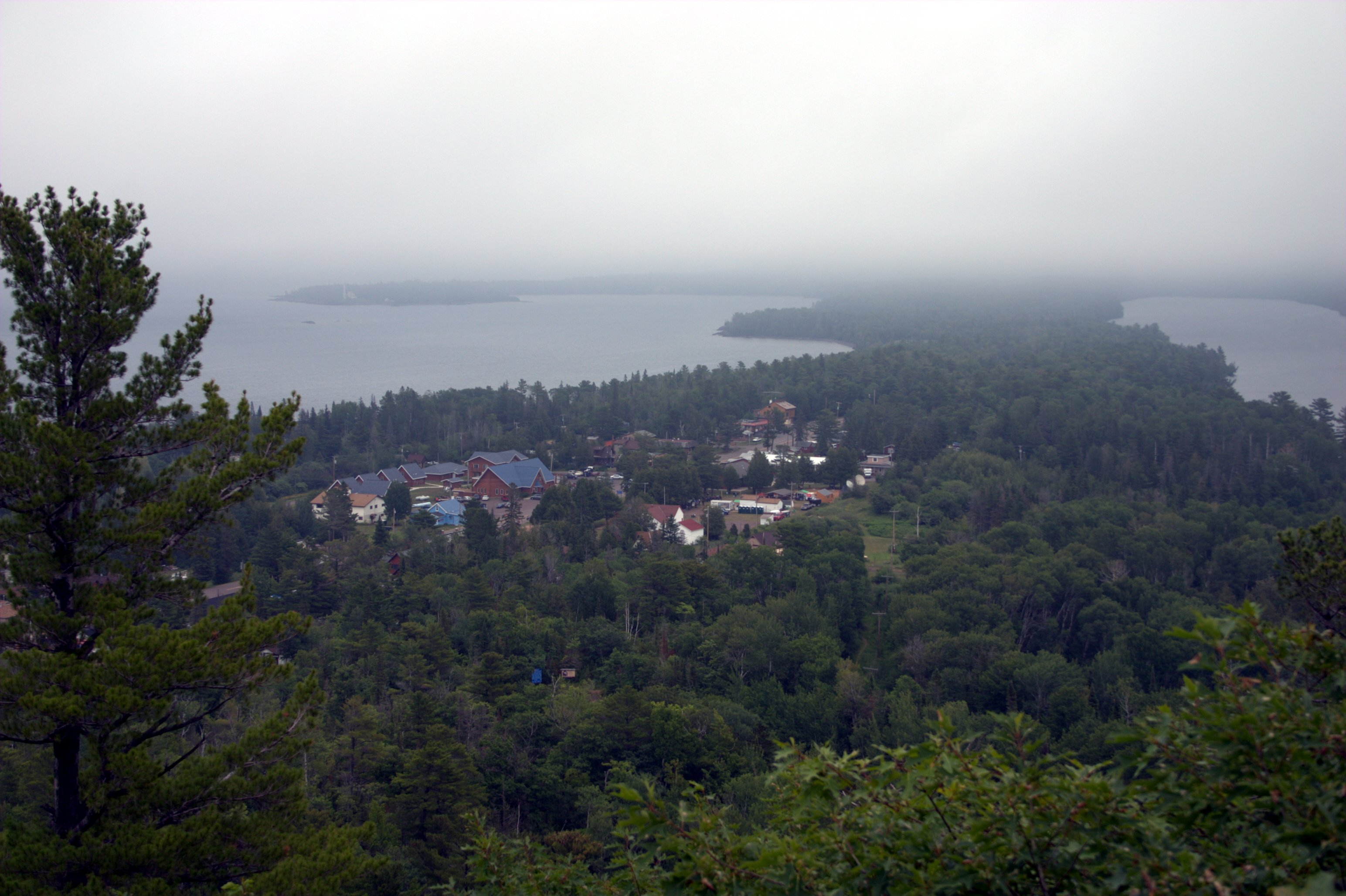 brockway_mountain-001